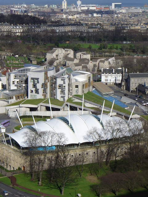 Dynamic Earth museum with Scottish Parliament from the Radical Road